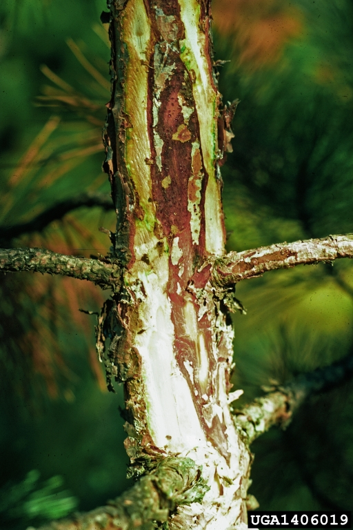 stem canker